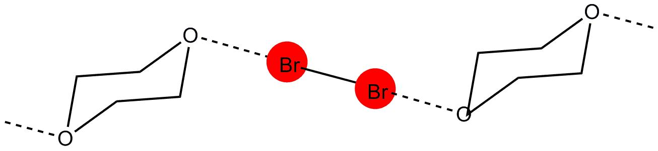 Chains in the 1:1 adduct of 1,4-dioxane and bromine